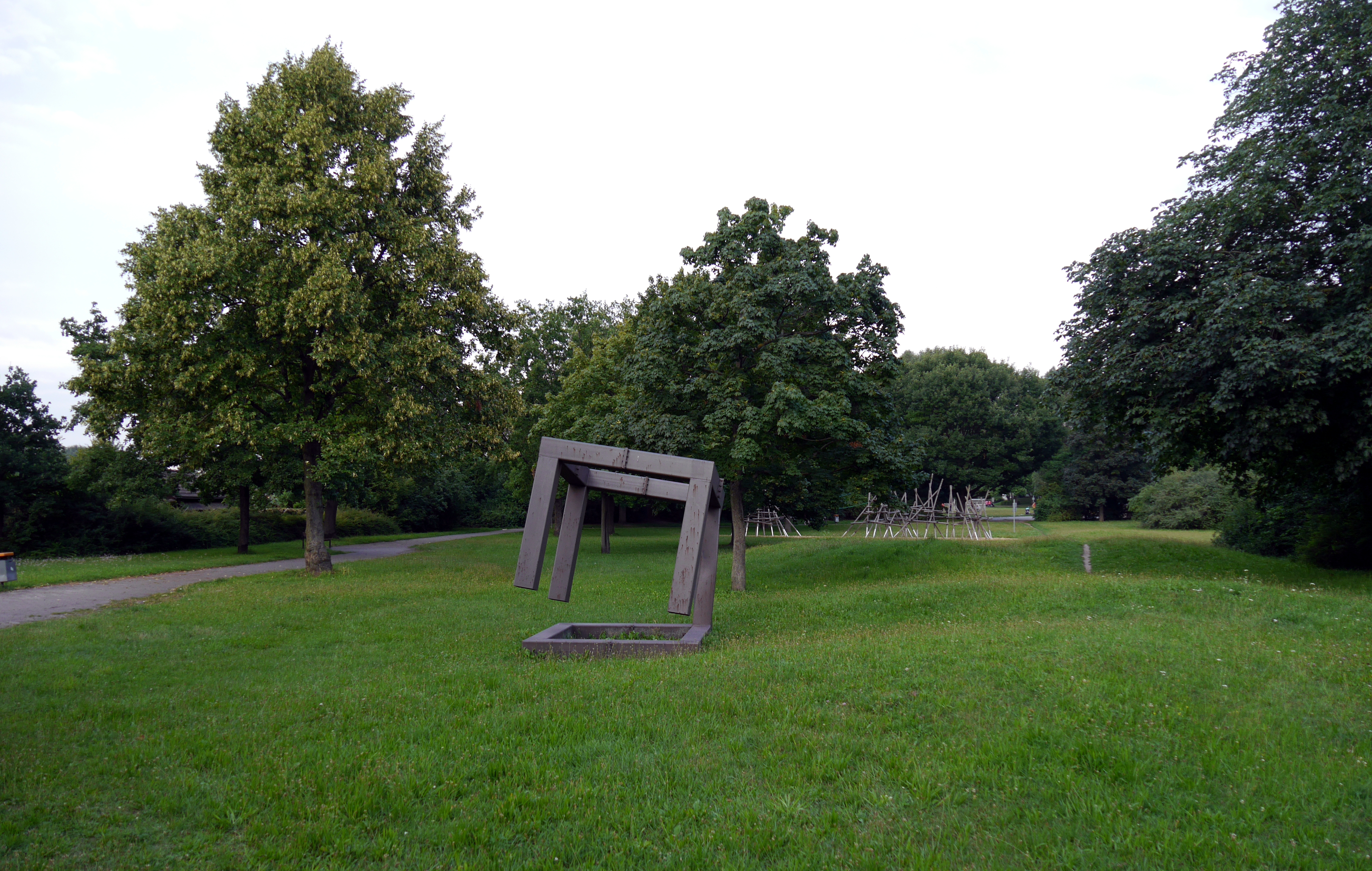 View of Westpark in Nuremberg with work of art from Alf Lechner